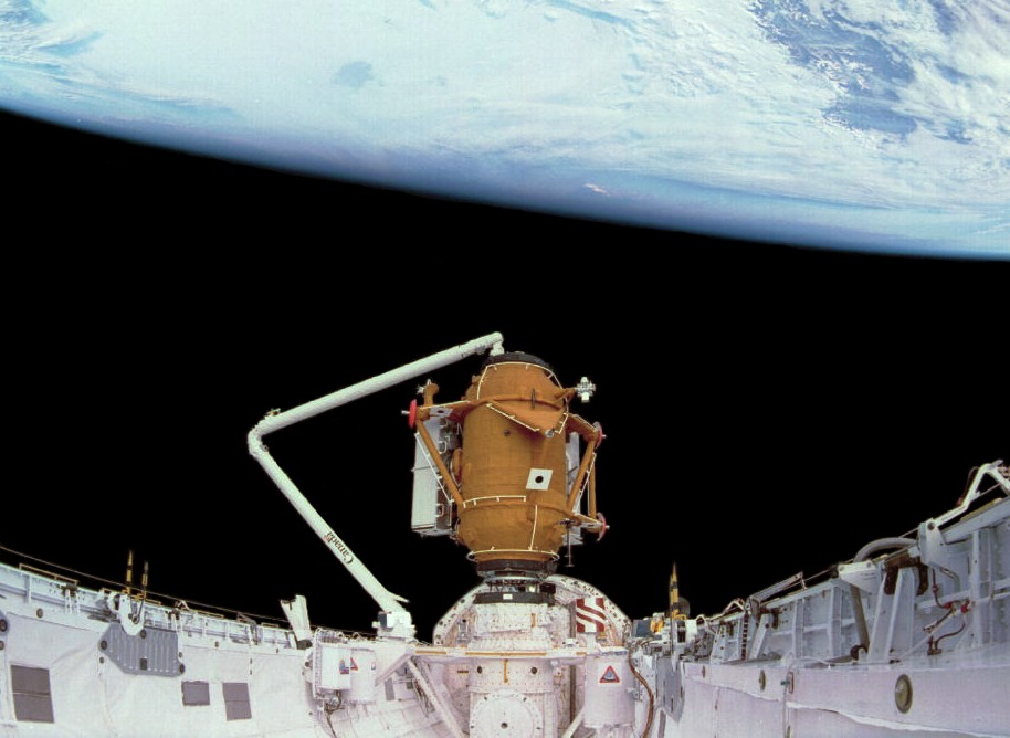 Space Shuttle Atlantis - A view of the new Mir Docking Module, positioned in Atlantis 's payload bay on STS-74, ready to be docked to the Space Station. Image has been cropped from original.